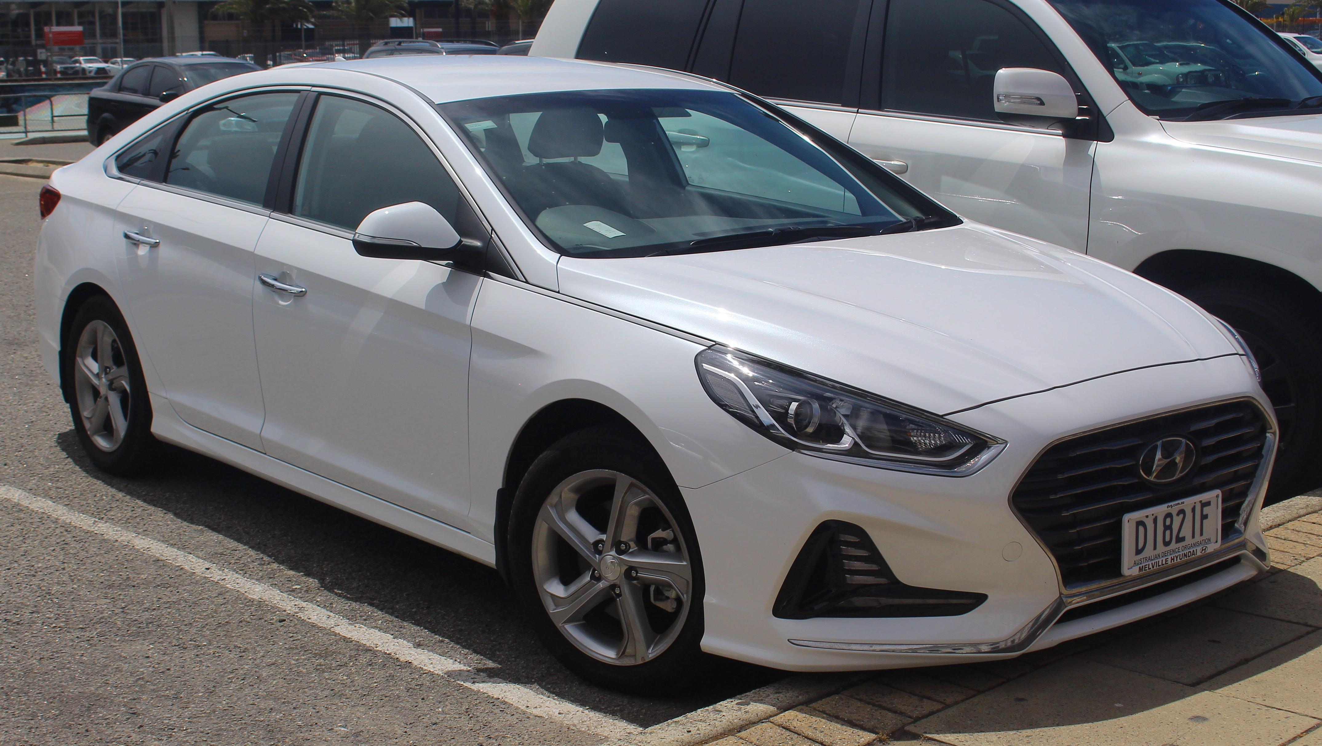 2018 Hyundai Sonata (LF4 MY18) Active 2.4 sedan. Photographed in Fremantle, Western Australia, Australia.